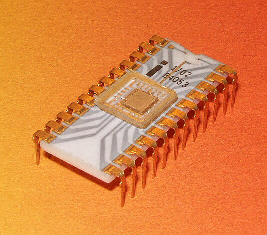 Intel 1702